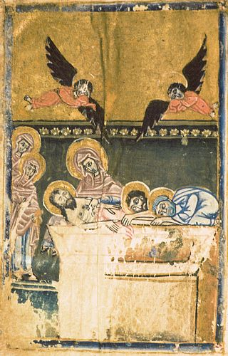 Erevan, Matenadaran, MS 6792, New Testament, 1302, Siunik', scribe and artist Momik, Entombment of Christ with the Holy Women